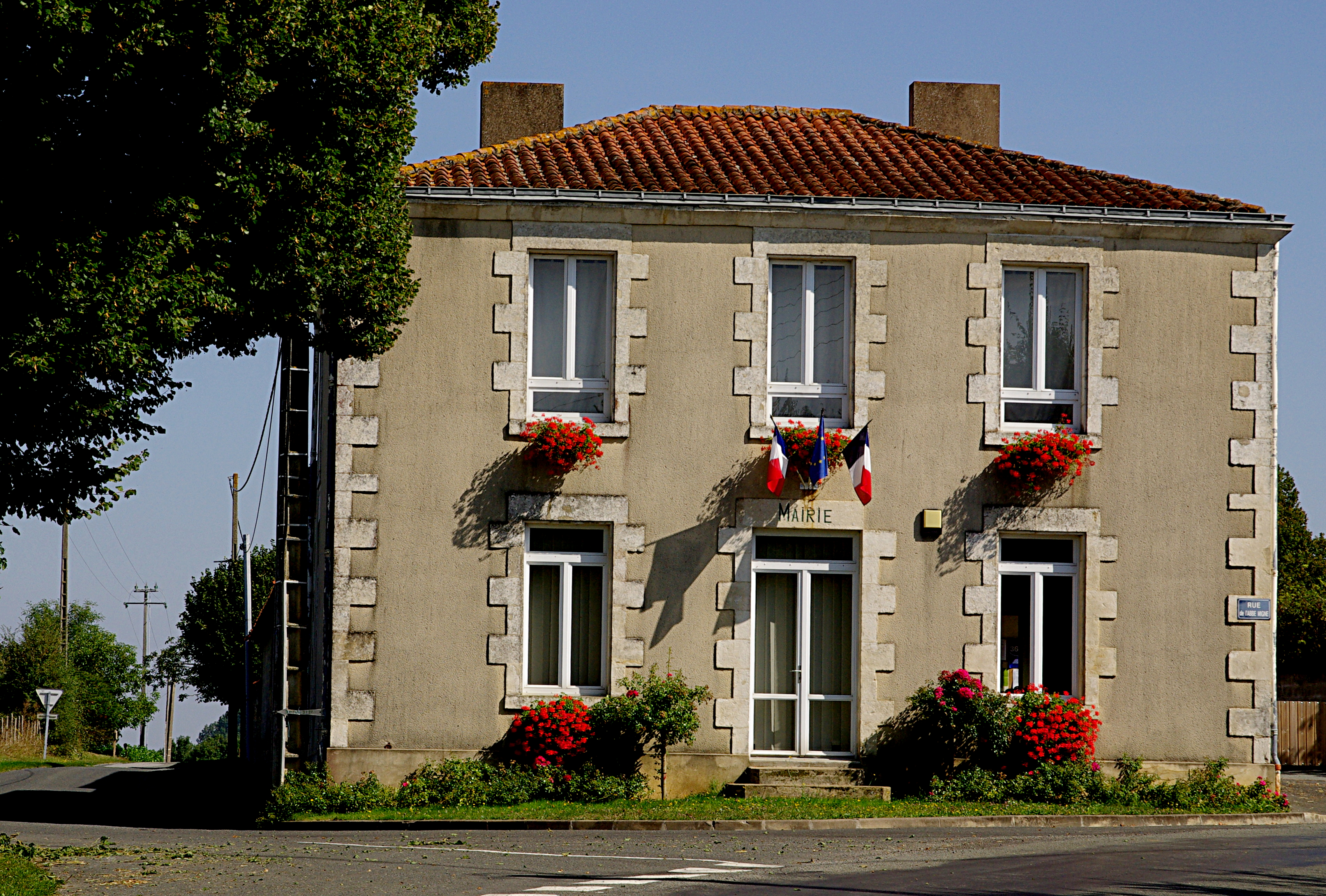 The town hall of Liez village in Vendée.